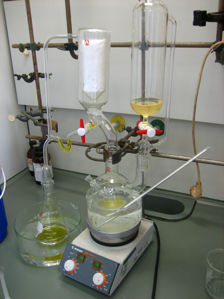 Diazomethane preparation - Macro Diazald Kit.